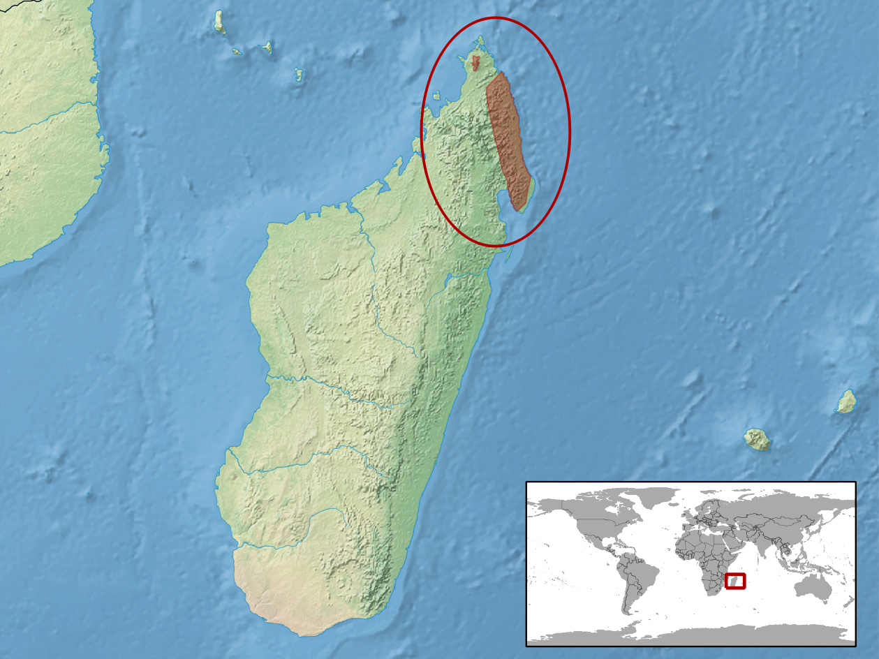 geographic distribution of Uroplatus giganteus (Native: Madagascar)